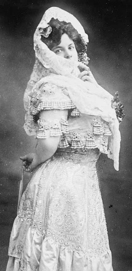 Spanish opera singer Maria Gay (1879-1943) as Carmen